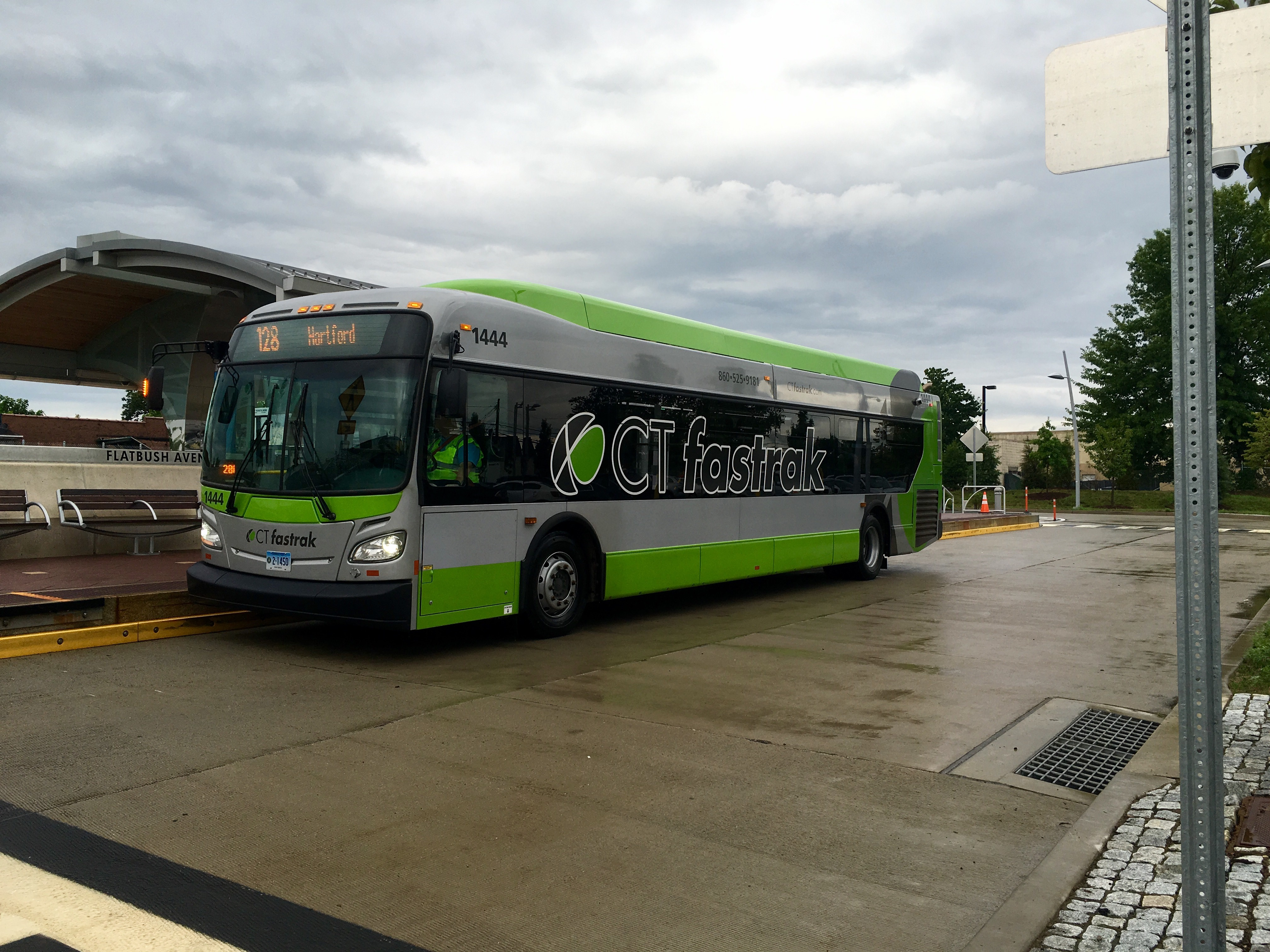 New Flyer Xcelsior XDE40 on CTfastrak route 128 at Flatbush Avenue station in August 2016